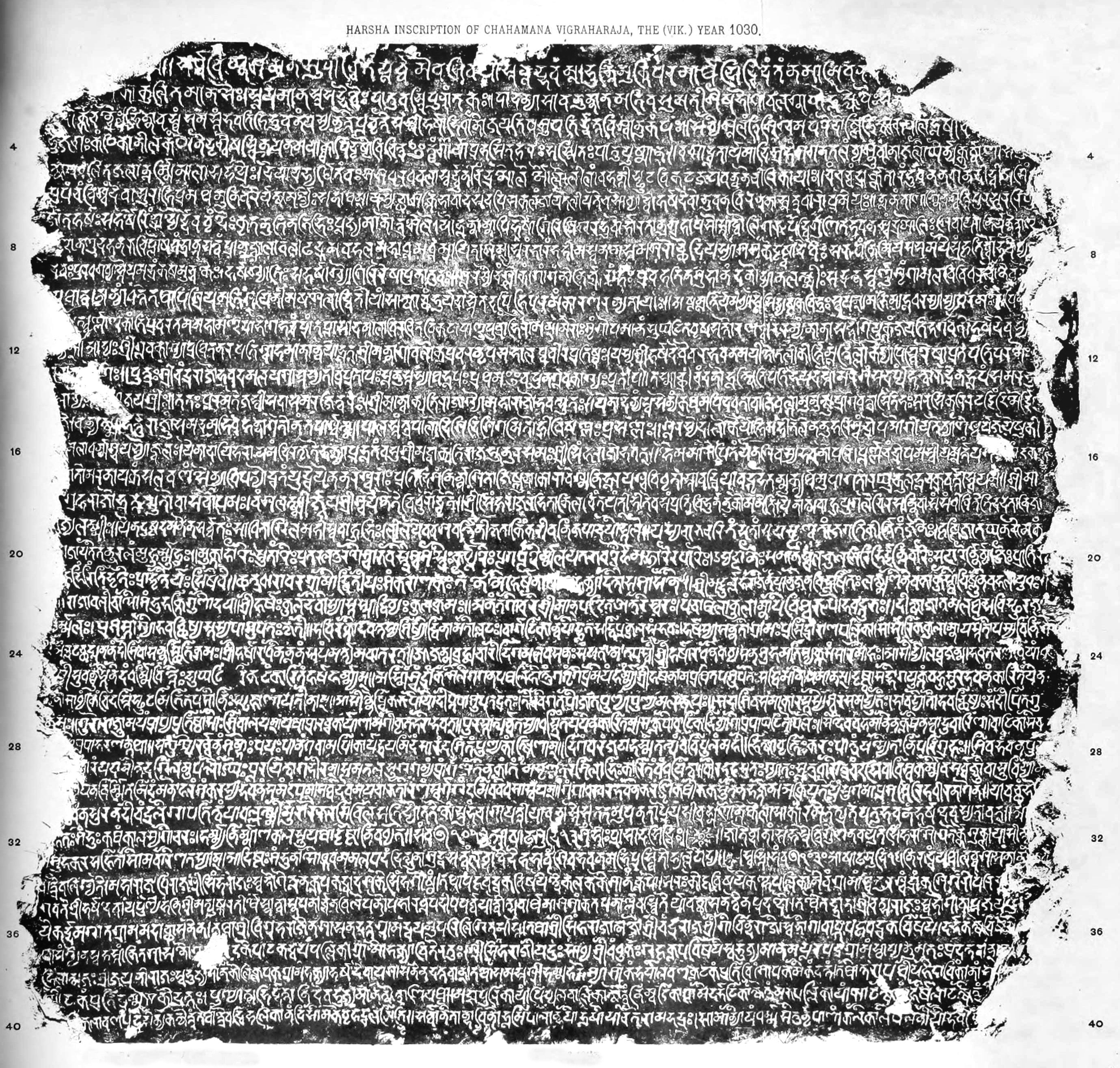 Harsha inscription of the Chahamana Vigraharaja in Vikrama 1300